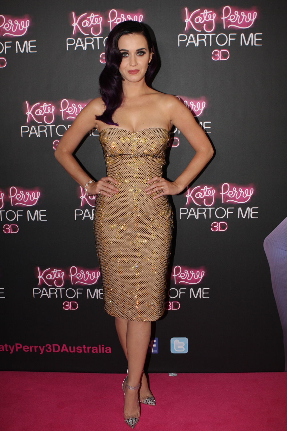 Katy Perry 'Part Of Me' movie premiere in Sydney, Australia